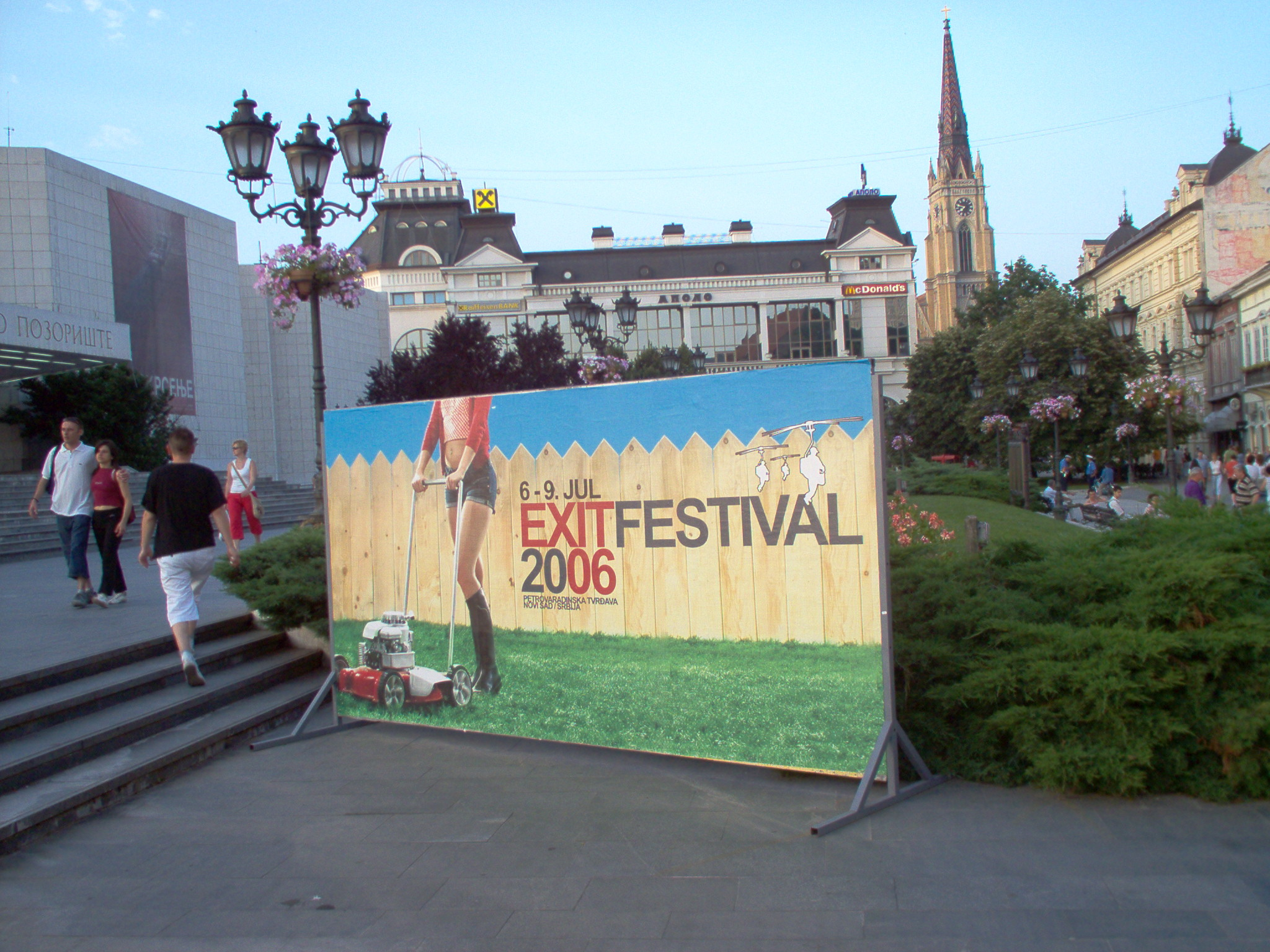 Billboard of EXIT 2006 near Serbian National Theater